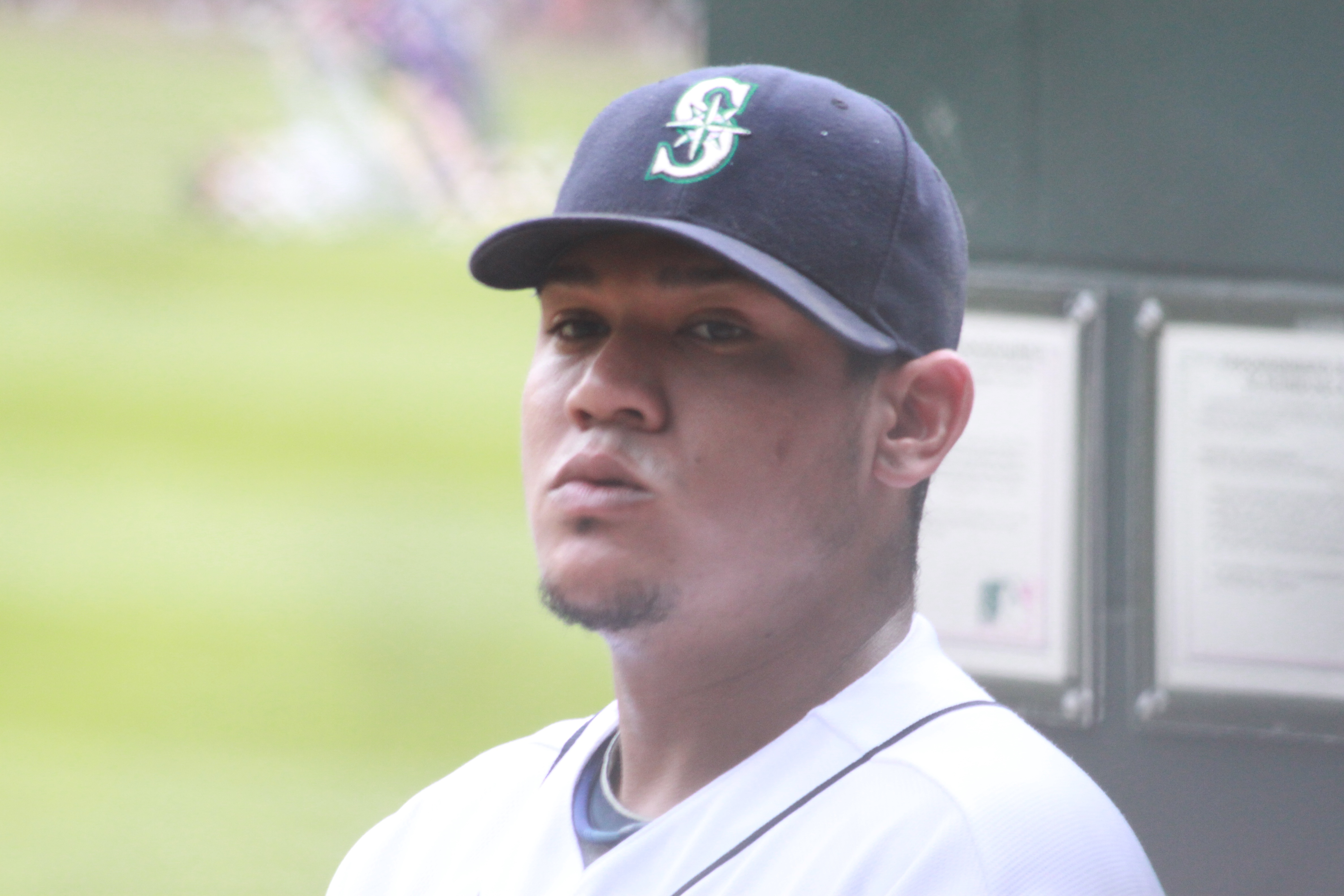 Felix ended up with 9 K's, a walk and 5 hits 1 ER allowed over 8 innings. 4 of those strikeouts came in his last inning of the game, which is pretty amazing.